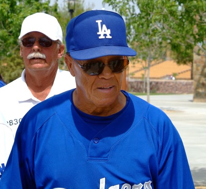 Former LA Dodgers player Maury Wills in 2009.